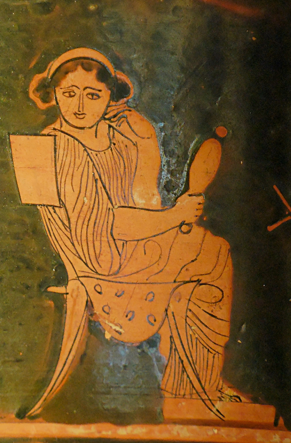 Woman holding a mirror. Attic red-figure pyxis, ca. 430 BC.